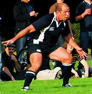 Ex captain of the famous world champion New Zealand All Blacks now playing for Oxford blocks the way against a B.C. Selects runner near the line...